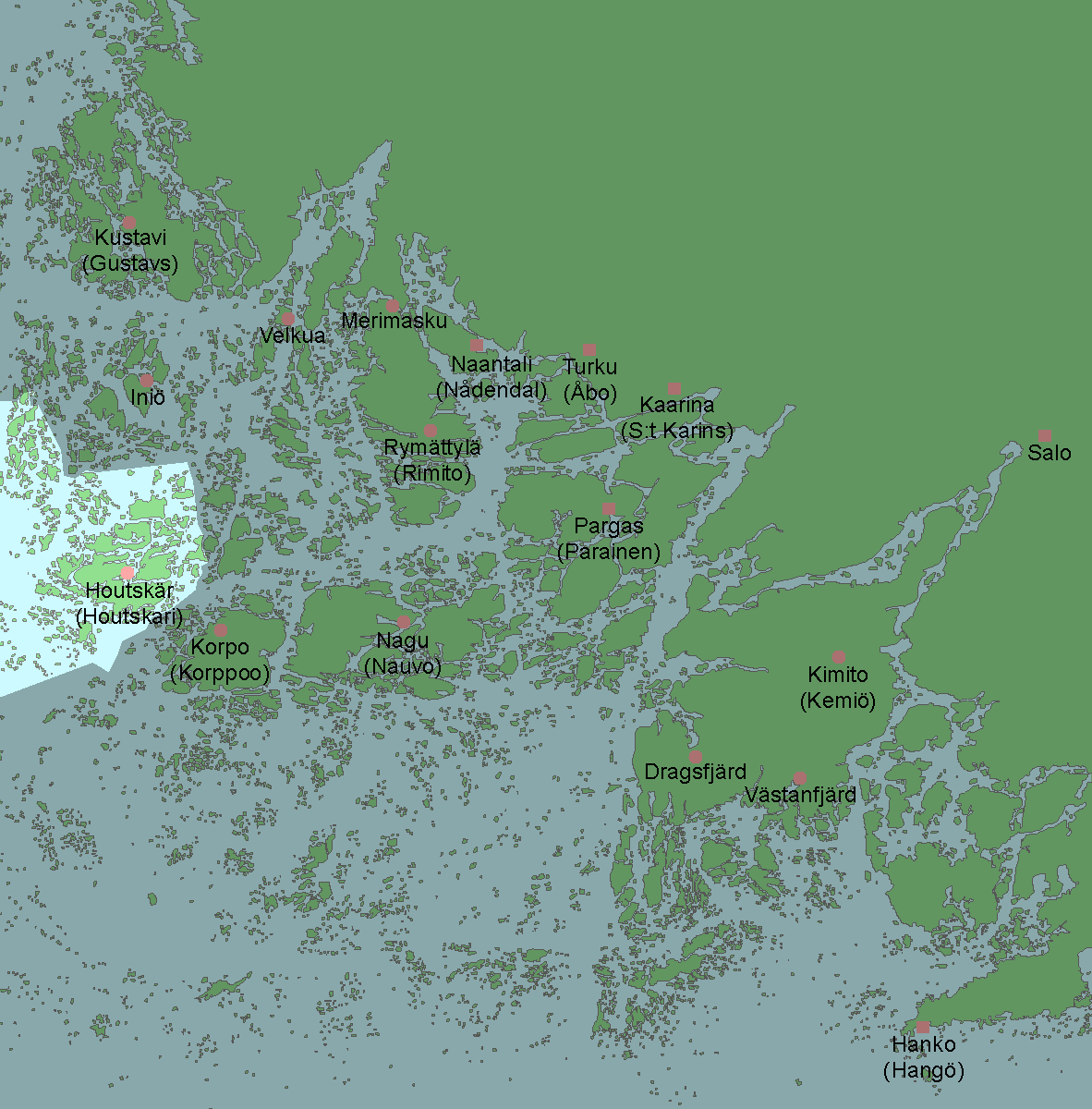 Location of the municipality of Houtskär within the Finnish Archipelago Sea